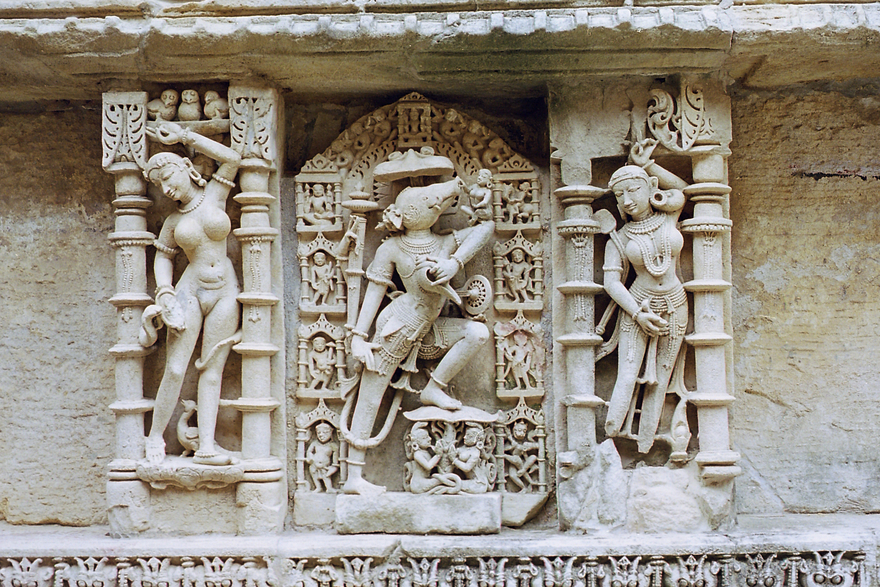 Vishnu sculpture inside Rani ki Vav, Patan, Gujurat